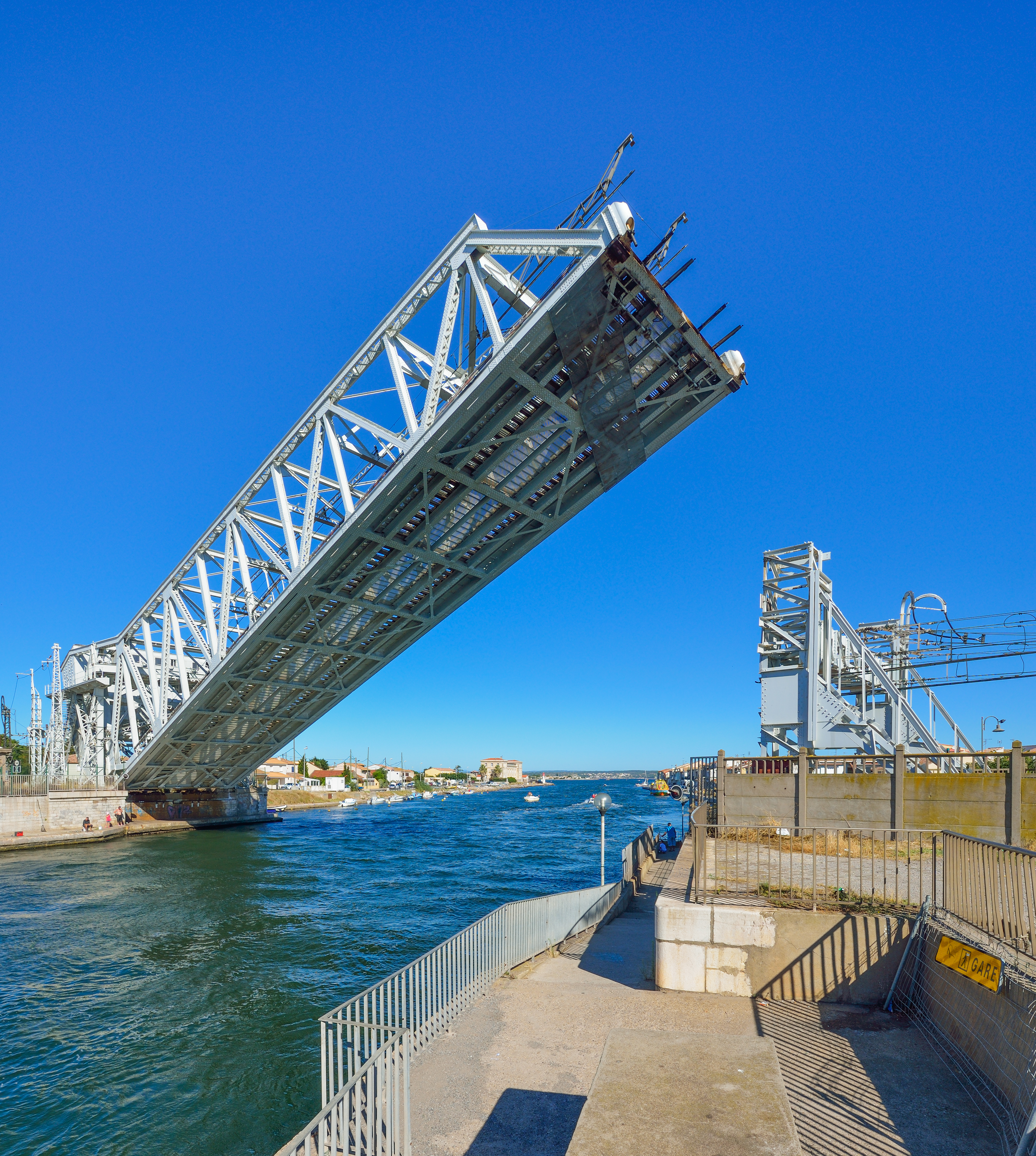 Maréchal FOCH Bridge, only electric railway bascule bridge in France, in open position and in progress to close. From the Maréchal Joffre Embankment. Construction of the bridge between 1932 and 1933 by the Établissements Daydé. Sète, Hérault, France.